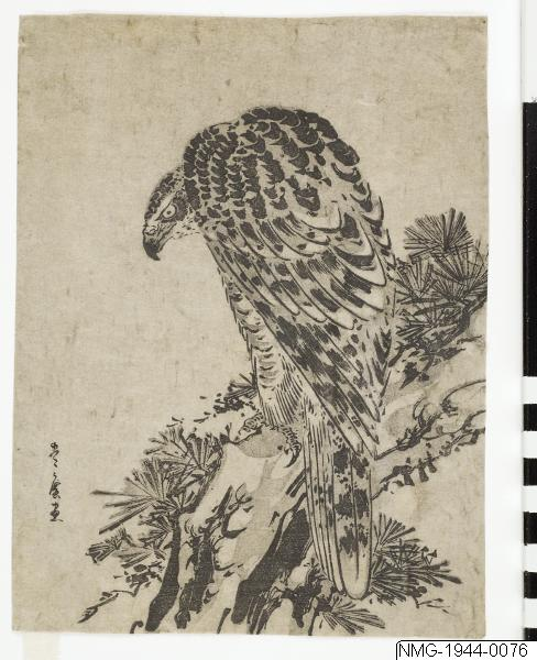 Raptor (northern goshawk Accipiter gentilis?) sitting on a pine branch, woodcarving by Japanese artist Toyohiro (1773-1828)